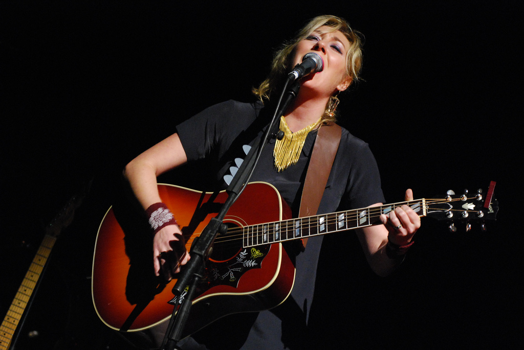 Martha Wainwright singing live at "Joy Eslava" theater in Madrid on November 7th, 2008